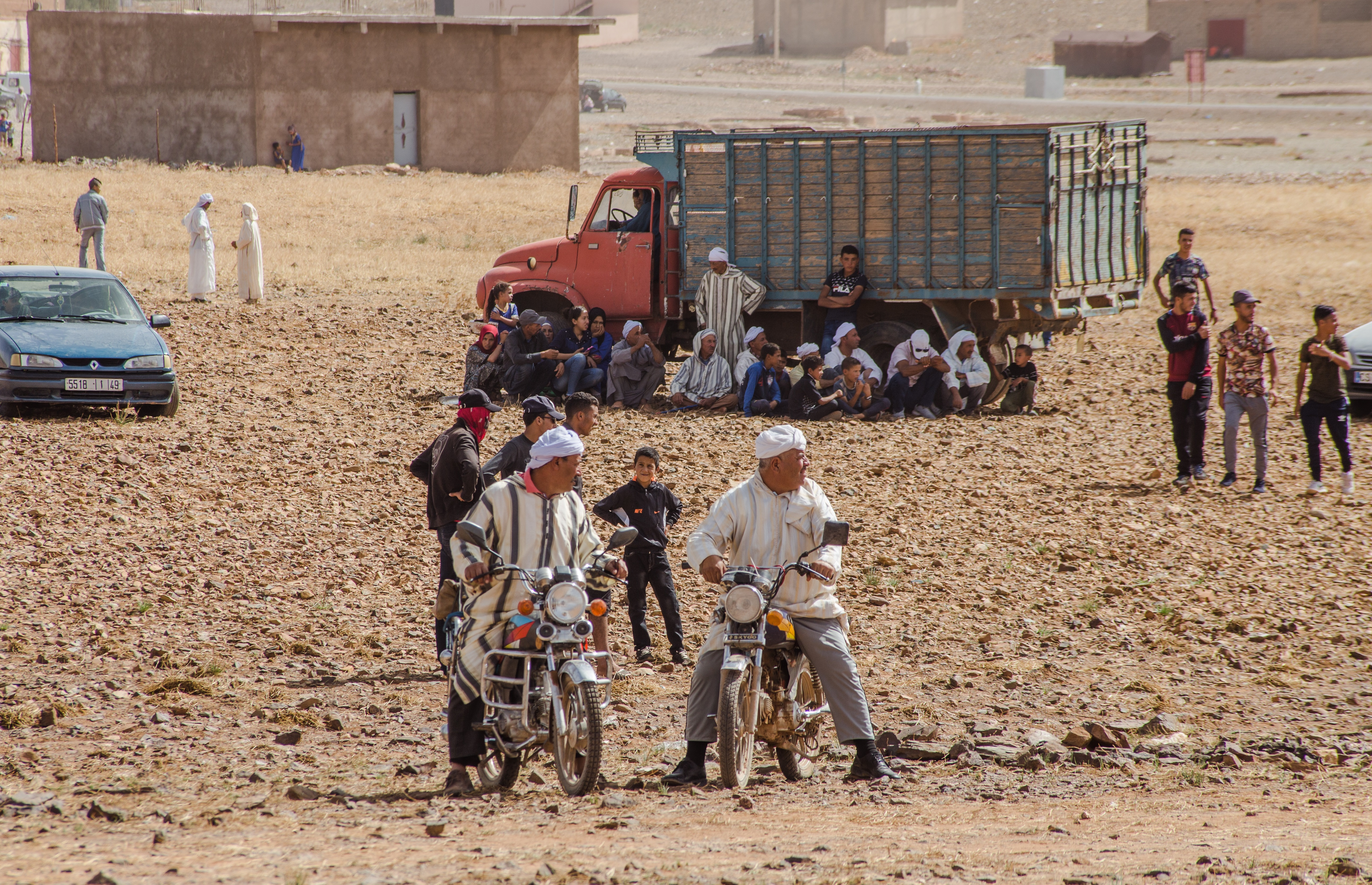 Transport Style in Ouled Ghziel village - Jerada Morocco by Brahim FARAJI This is an image with the theme "Africa on the Move or Transport" from: Morocco